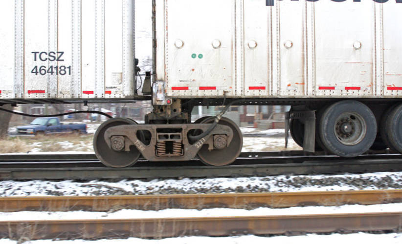 An ingenious type of roadrailer.